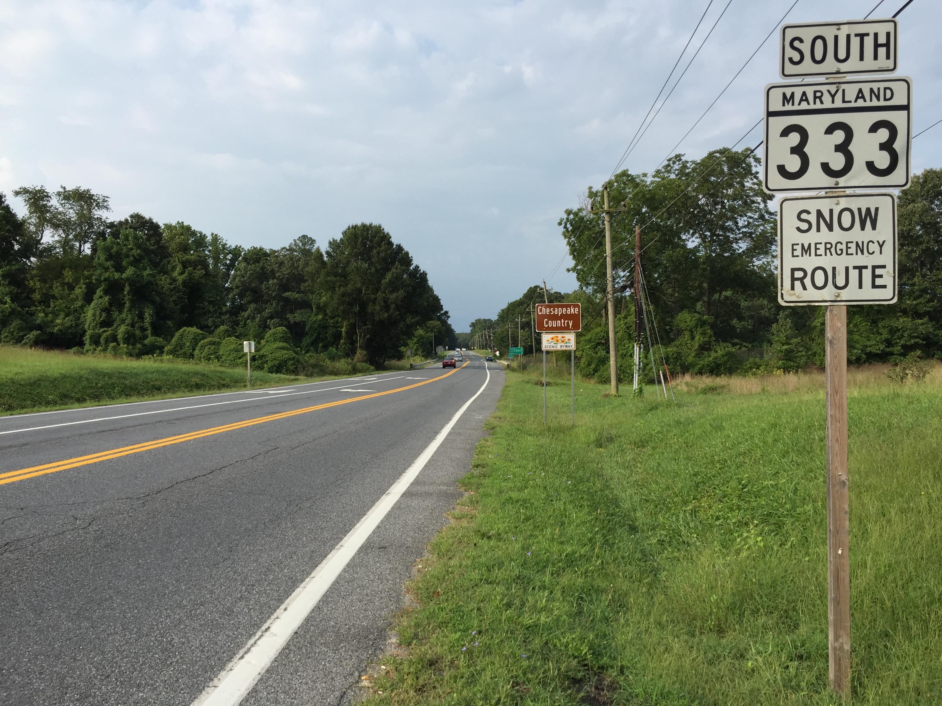 View south along Maryland State Route 333 (Oxford Road) at Maryland State Route 322 (Easton Parkway) in Easton, Talbot County, Maryland